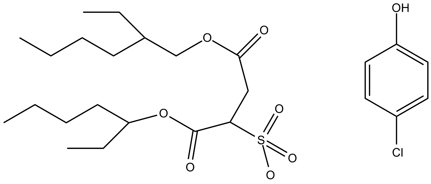 LMW organogelators